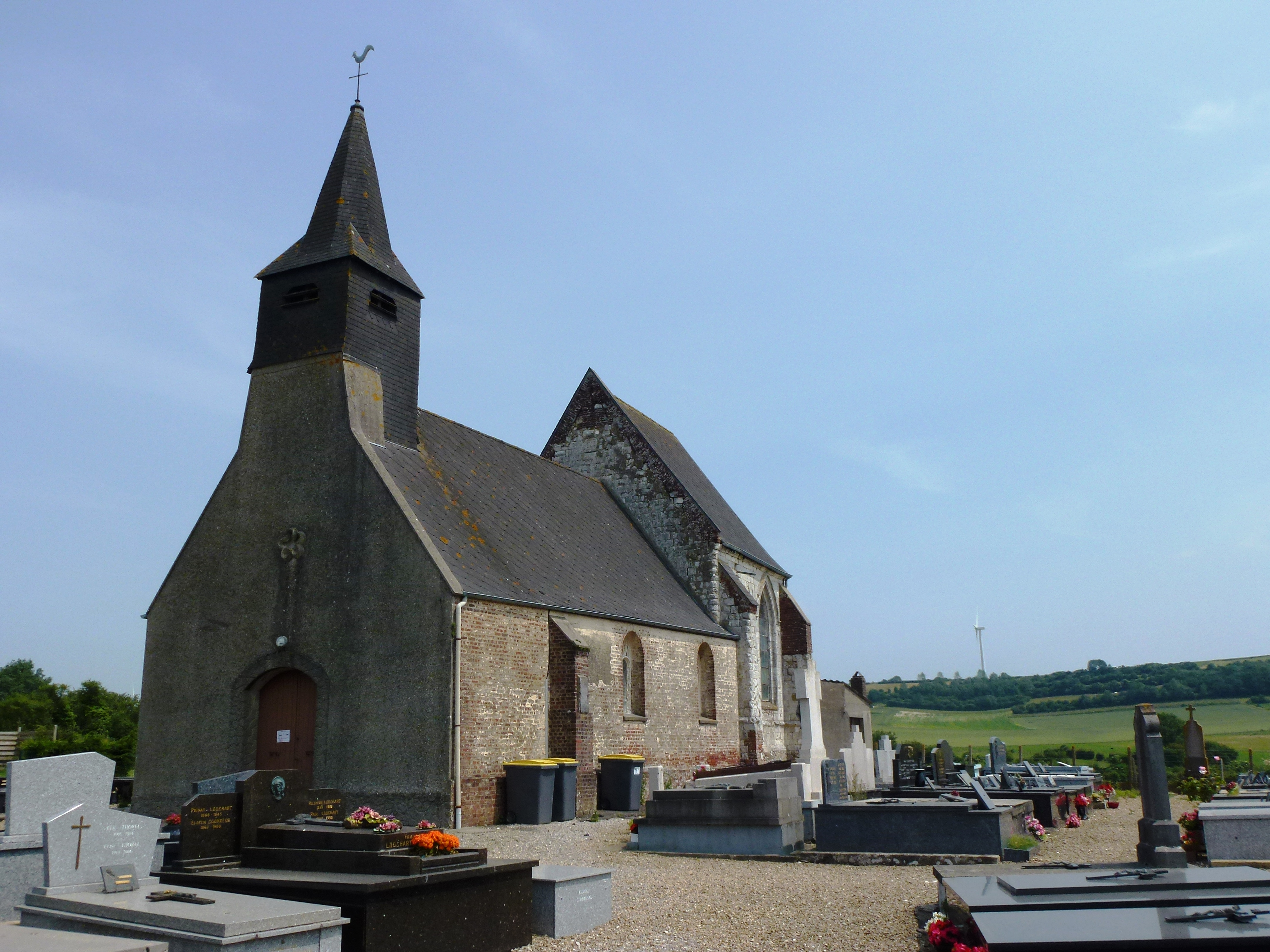 Vincly (Pas-de-Calais, Fr) église Saint-Thomas-de-Canterbury